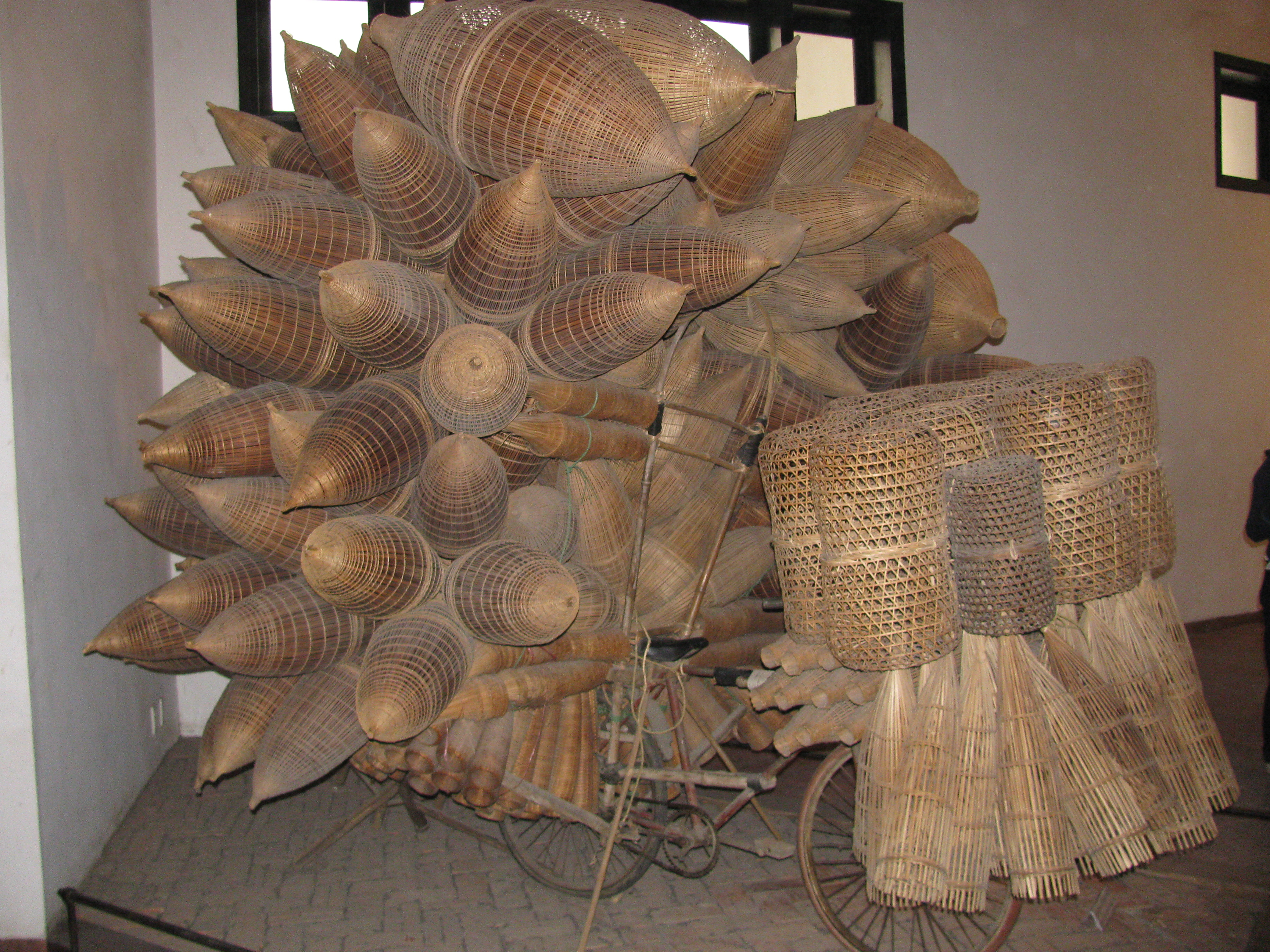 The Vietnam Museum of Ethnology in Hanoi showcases the history of the 54 officially recognized ethnic groups of Vietnam. This was a bicycle covered in fish traps, showing how vendors used to pack these things to the max and ride them around.